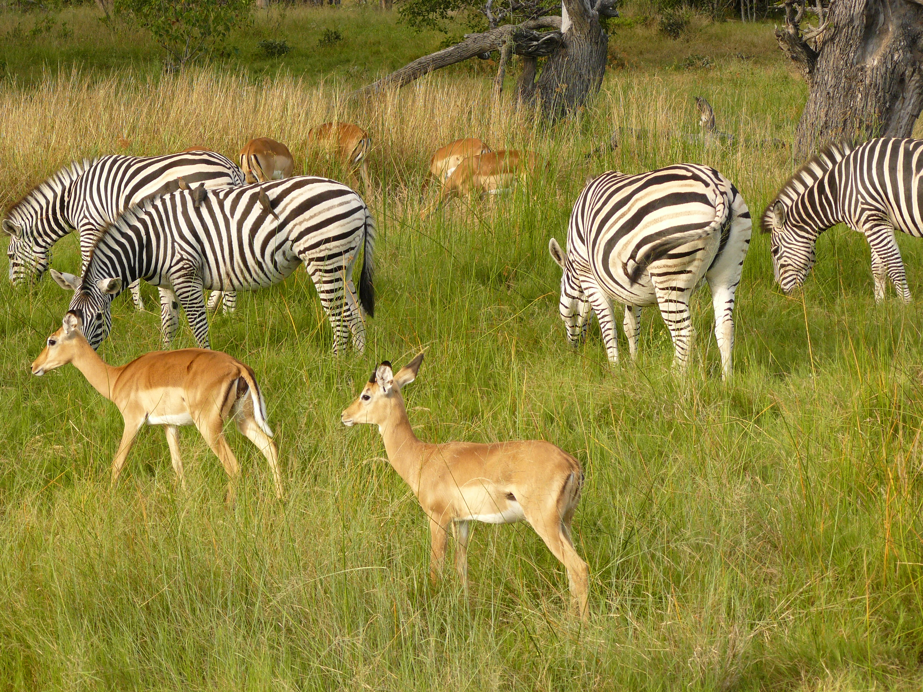 Zebras in Chobe National Park, Botswana